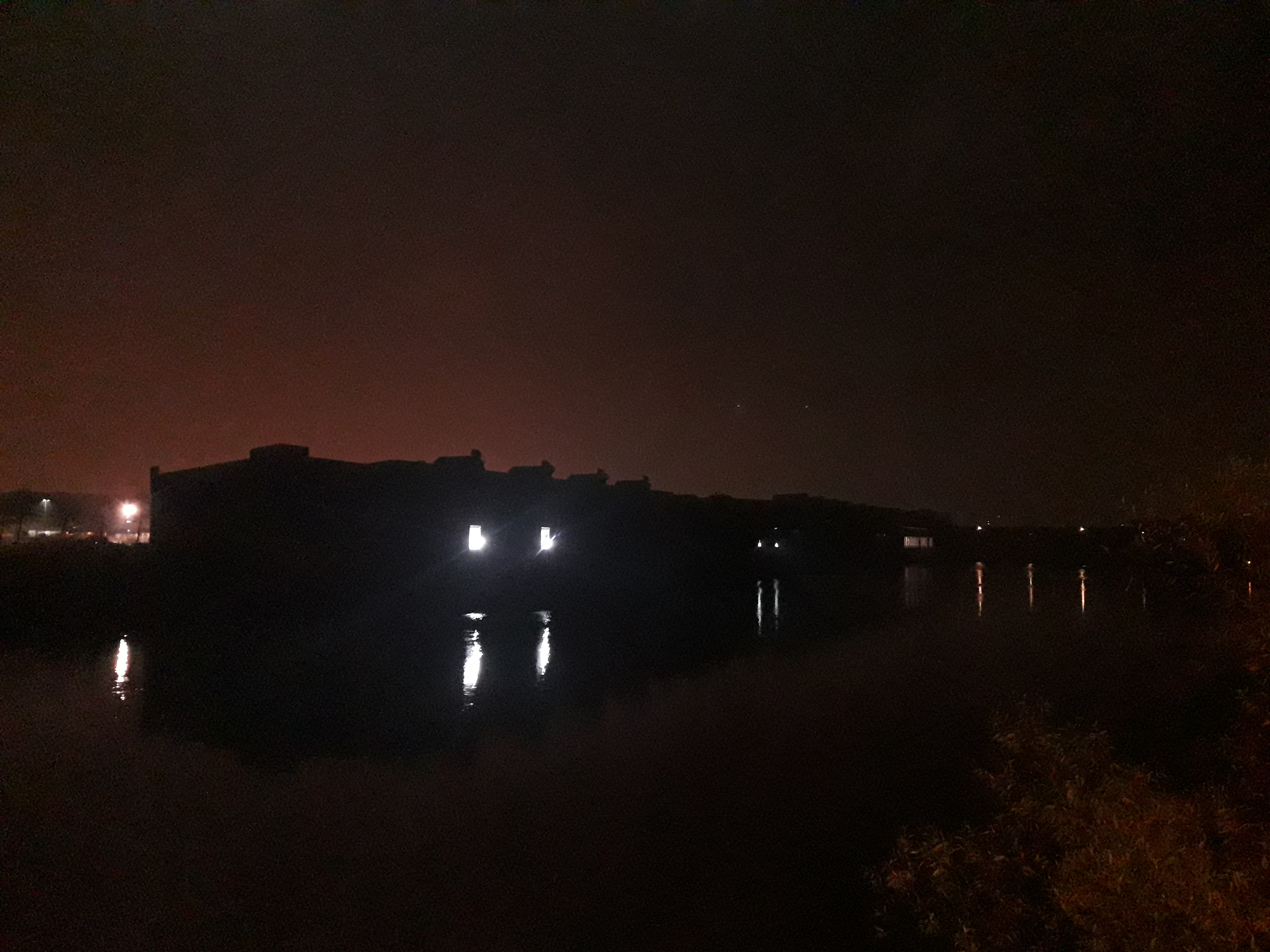 On this crucial/key date when the anniversary of Reichsprogromnacht is repeating itself the waterside of this monument got illuminated.